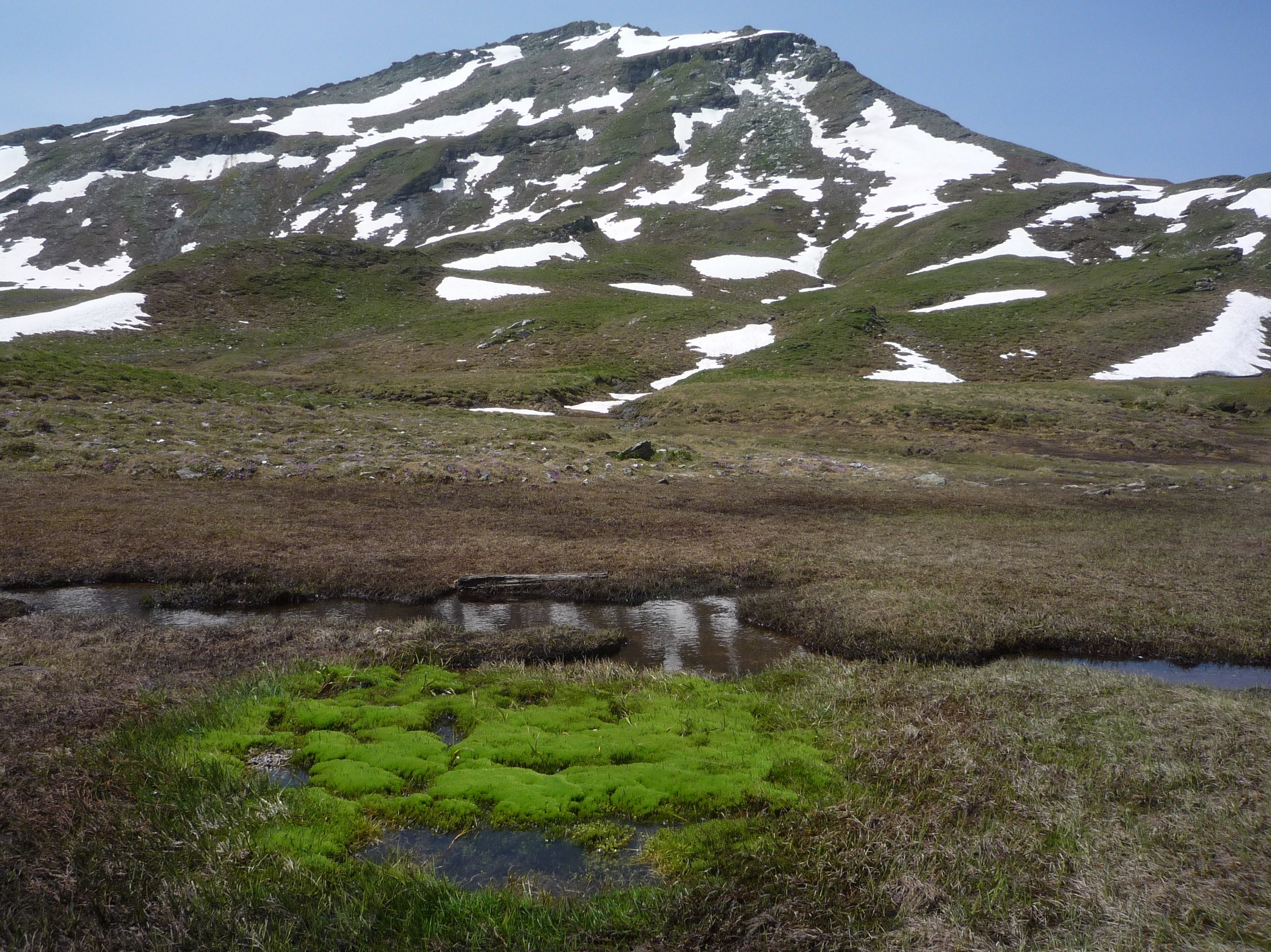 Tomülgrat seen from the pass of the same name. Noteworthy the spot that had some sunlight already in the foreground, whereas the area around it was covered with snow until shortly before the photo was taken.